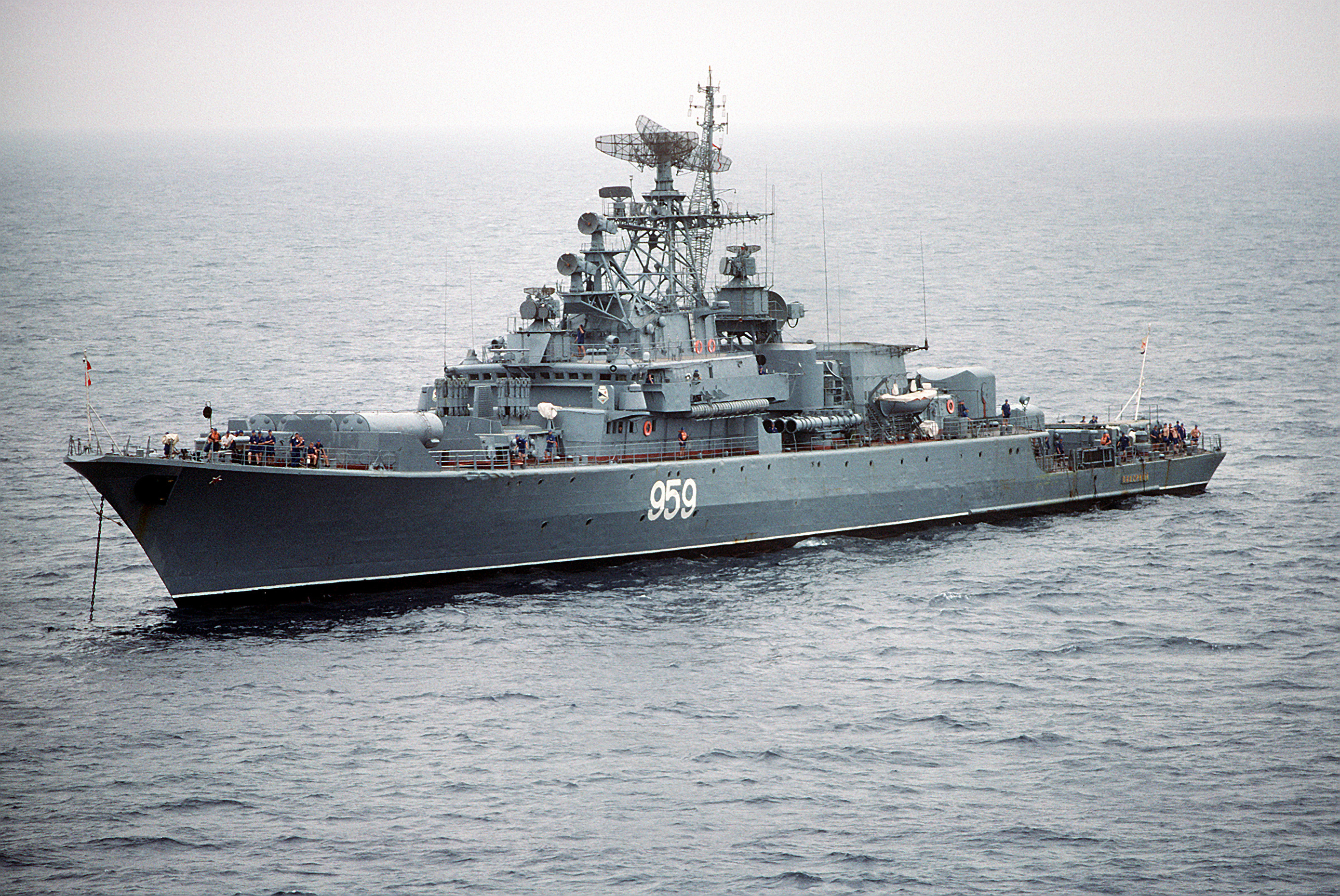 A port bow view of the Soviet Krivak I Class guided missile frigate 959 at anchor.